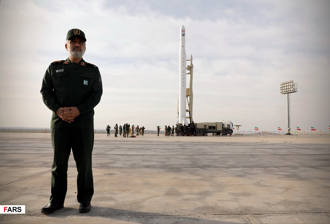 First launch of the Qased SLV.